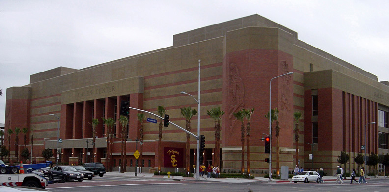 USC's Galen Center, on the corner of Figueroa and Jefferson. The distinguishing window is located on Jefferson (on the left side in the photo). Photo taken by Bobak Ha'Eri, on November 11, 2006. Please observe license and properly cite in use outside Wikipedia. Category:Images of Los Angeles, California